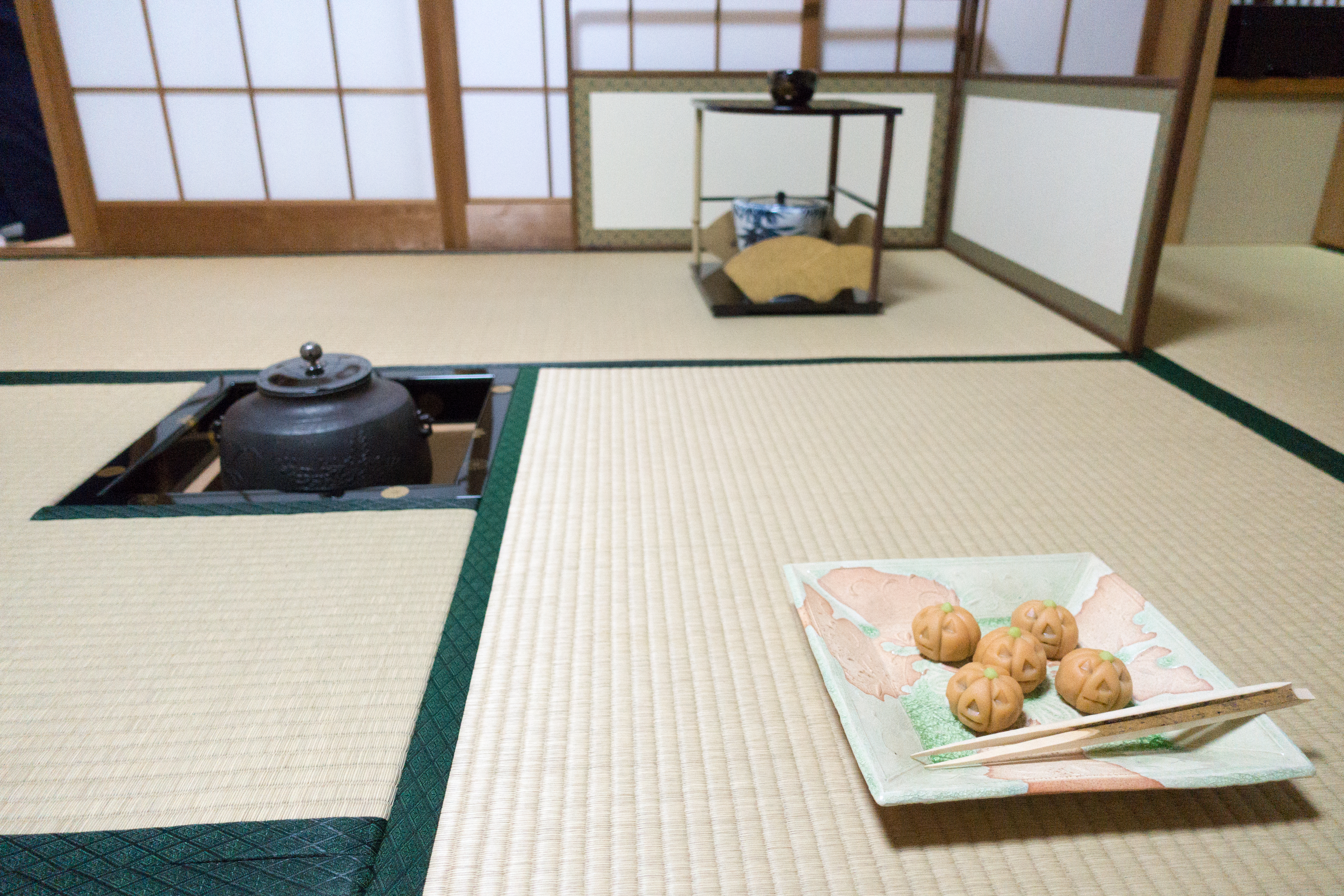 Tea ceremony